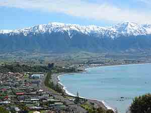 Town of Kaikoura with Seaward Kaikoura Range in background On the Kaikoura page, the uploader claims copyright. Assuming good faith, this image is gfdl